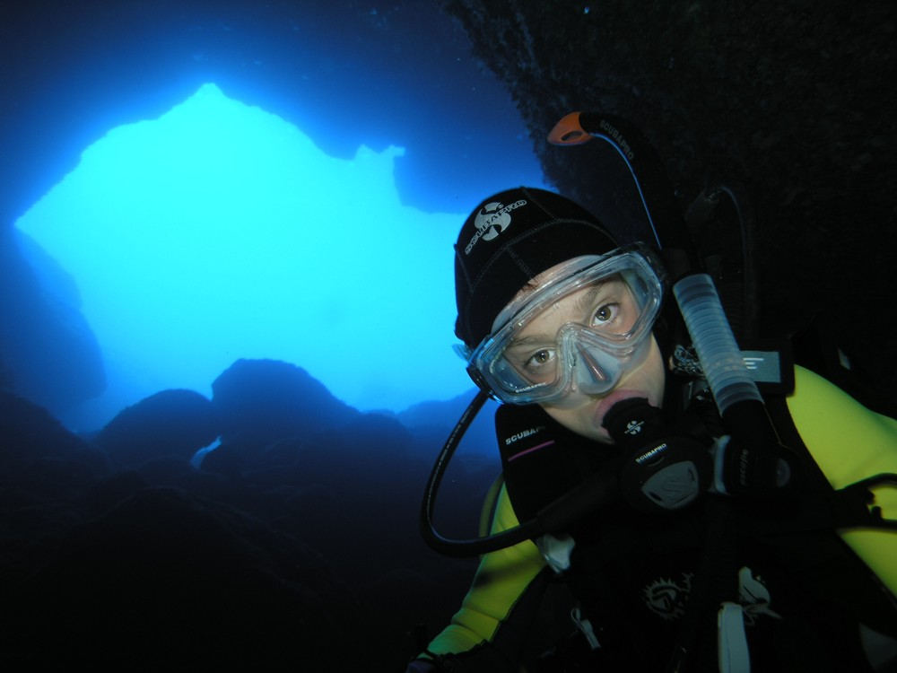 Main entrance Nereo underwater Cave - Alghero Sardinia